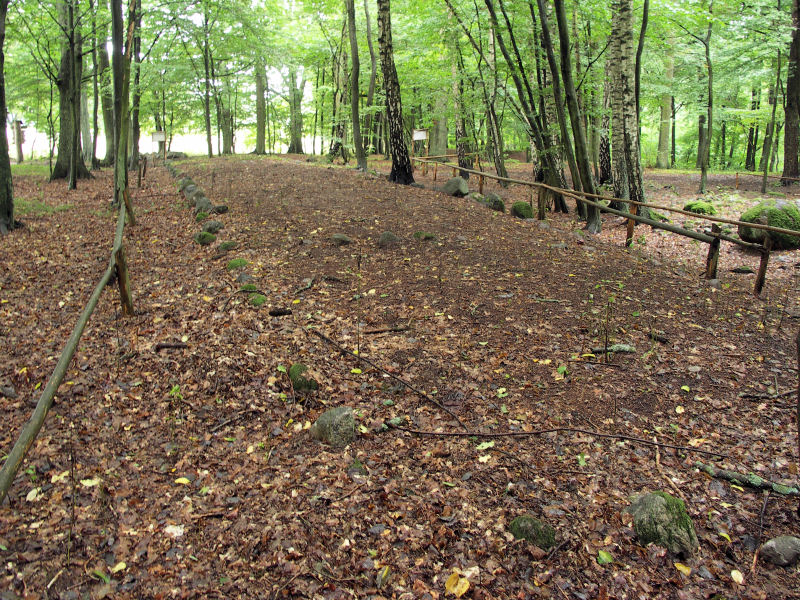 Borkowo - megalith grave